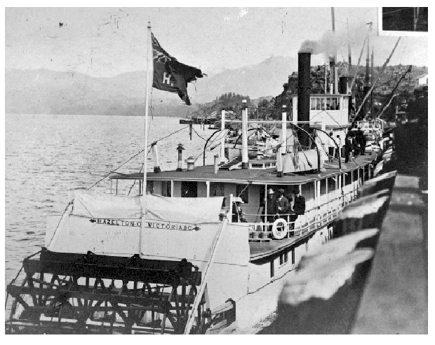 Photographer:Unknown Date:Not taken after 1912 Source:BC Archives#B-07501 [1]